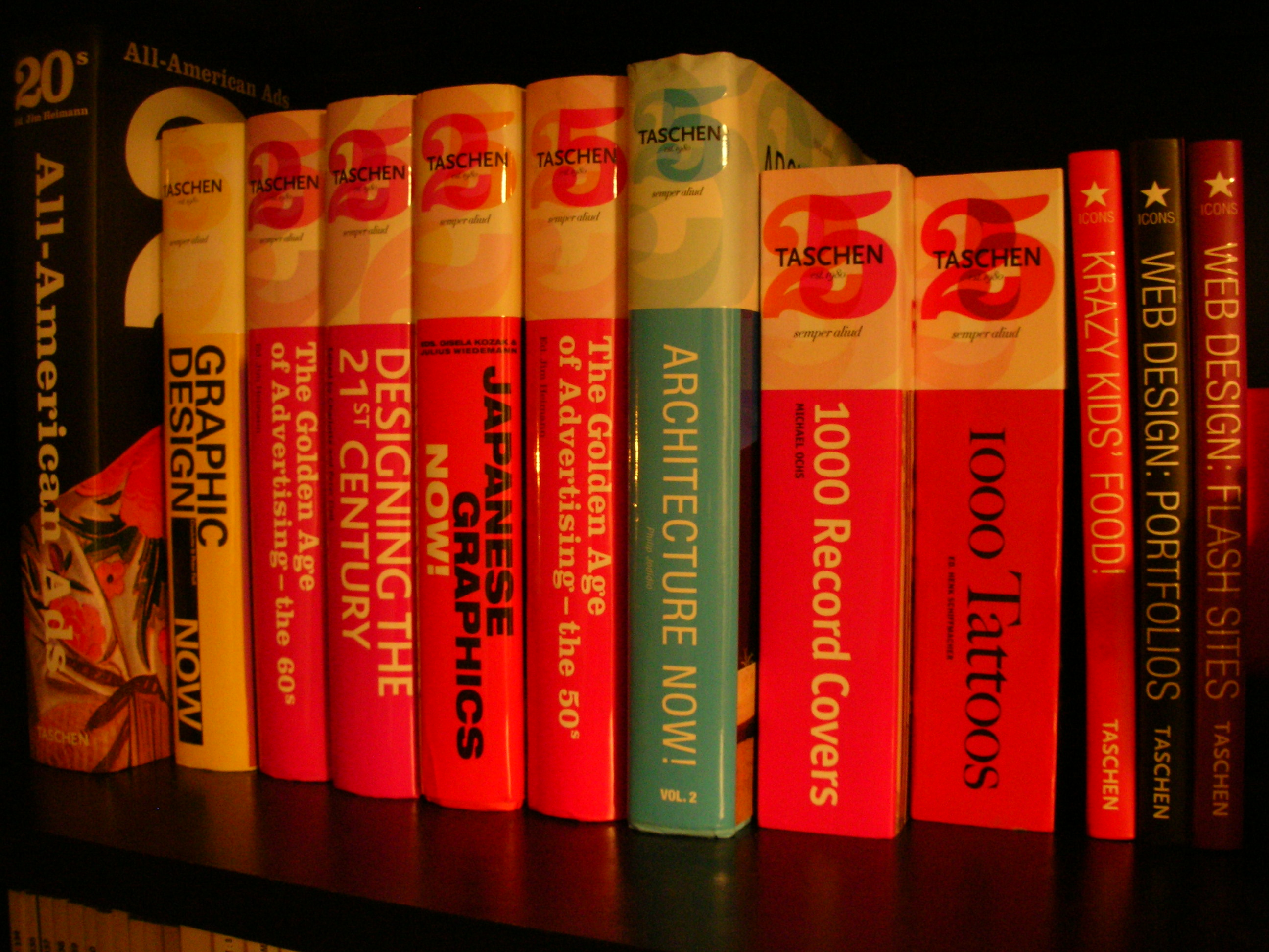 Books of TASCHEN.